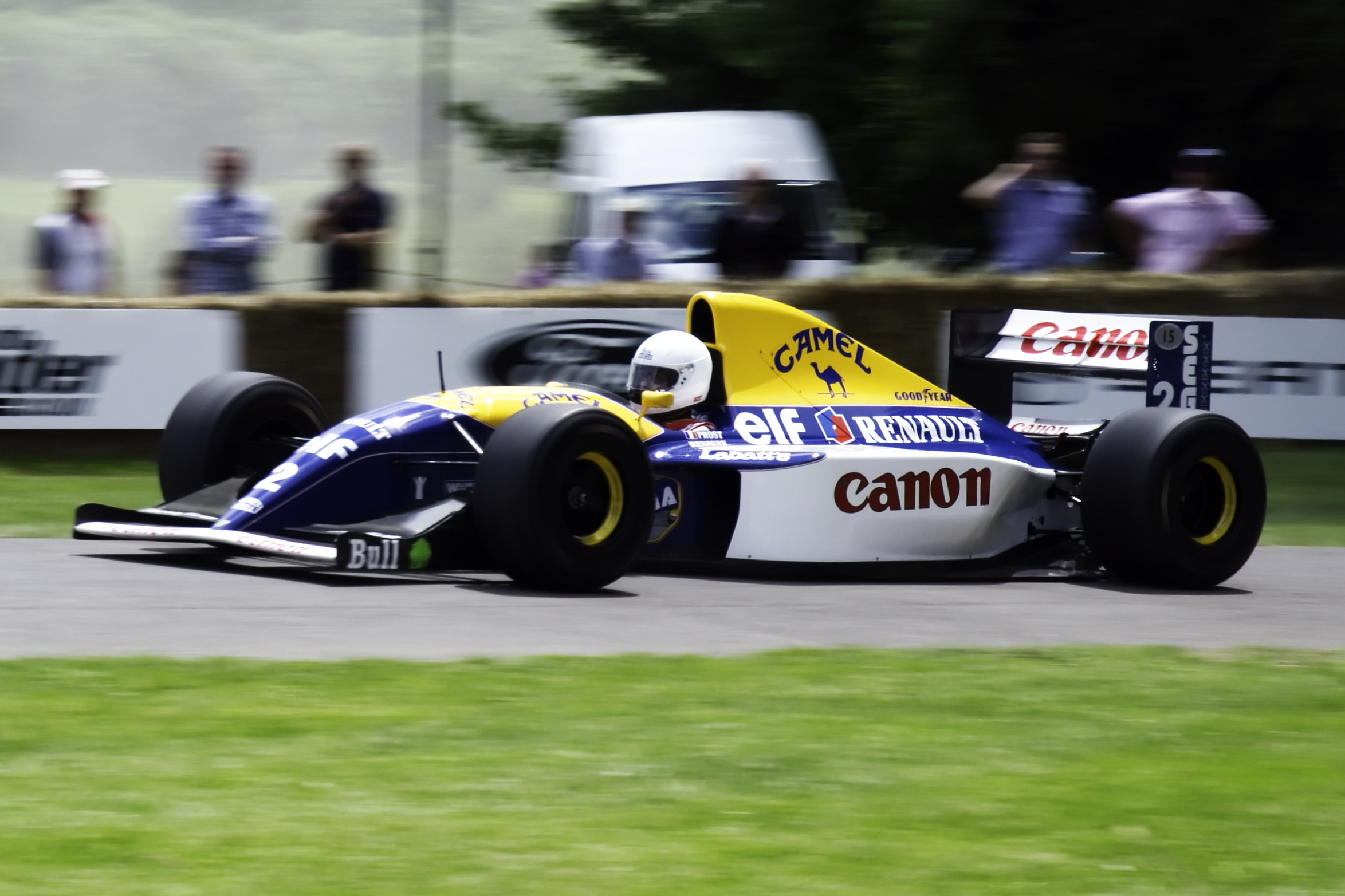 Williams-Renault FW15C